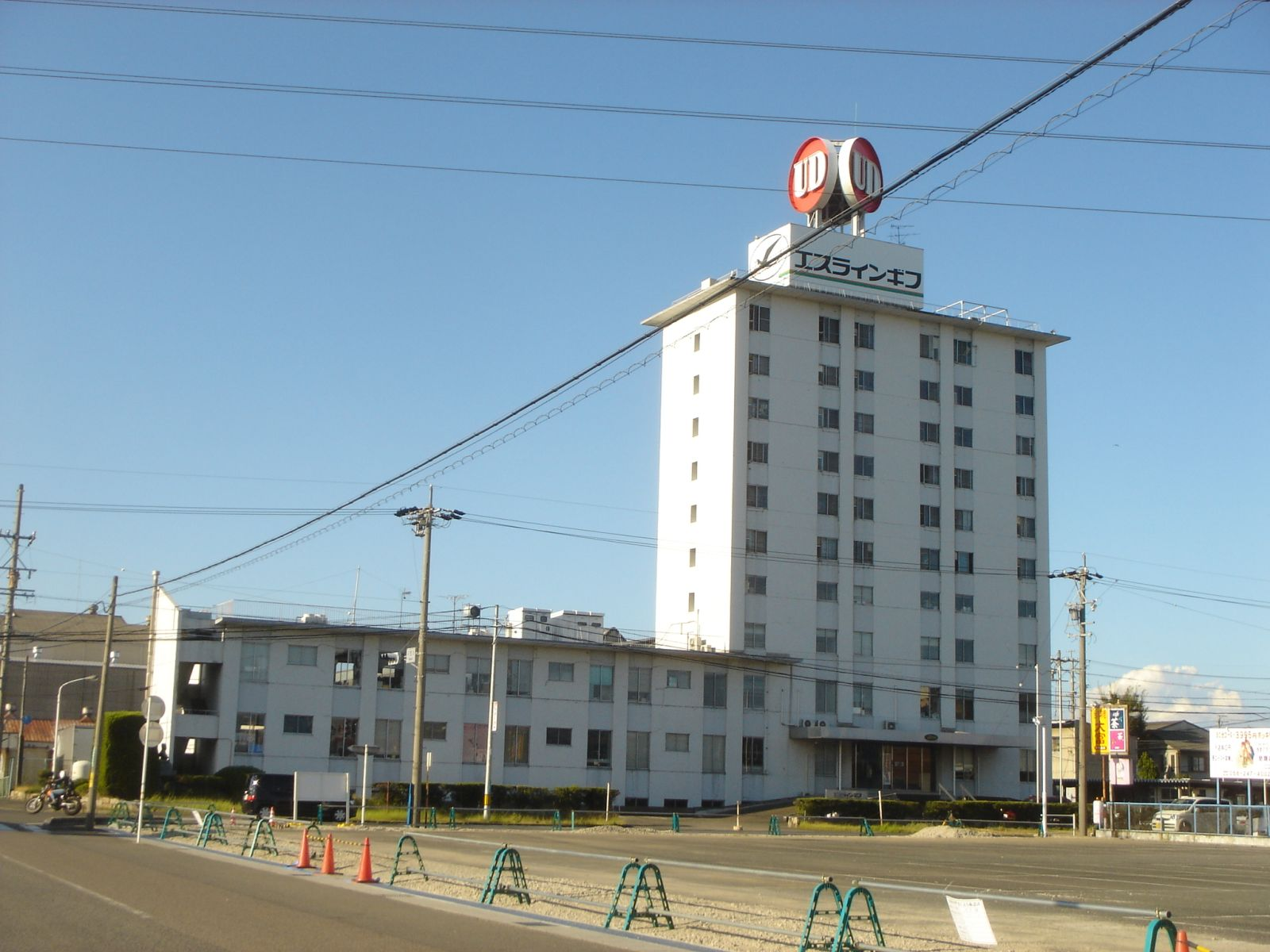 S LINE GIFU CO.,LTD